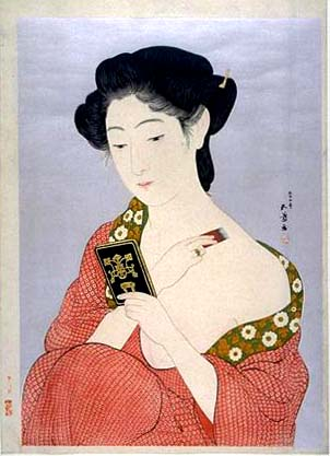 Woman Applying Powder